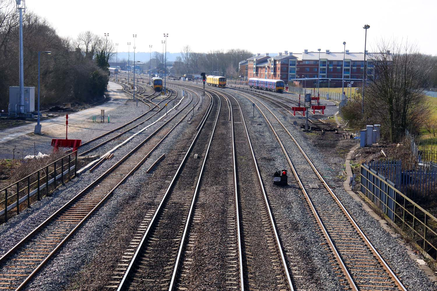 View south from Walton Well Road bridge along the Cherwell Valley Line in north Oxford, showing carriage sidings north of Oxford station